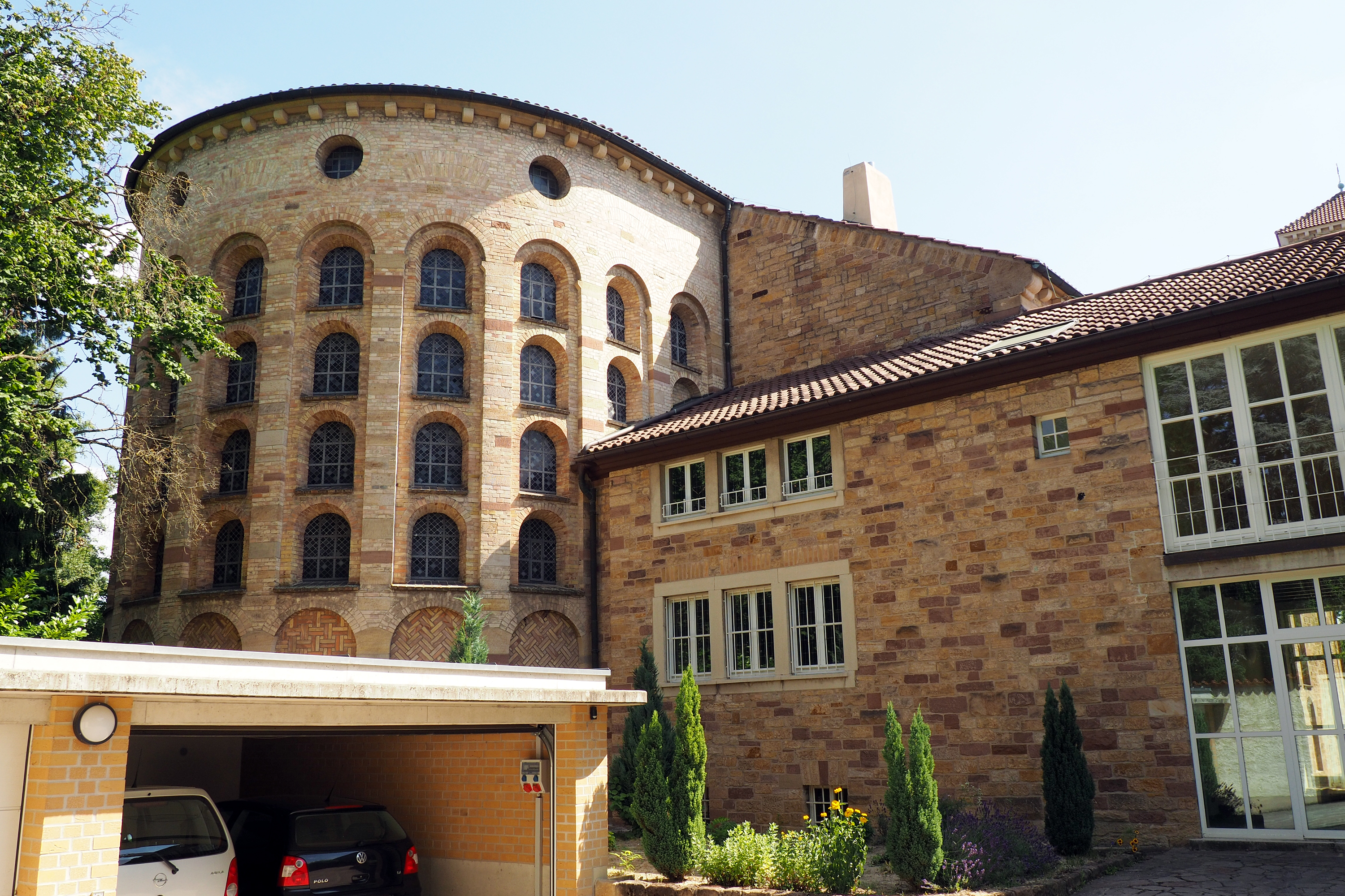 Bernhardskirche, Speyer